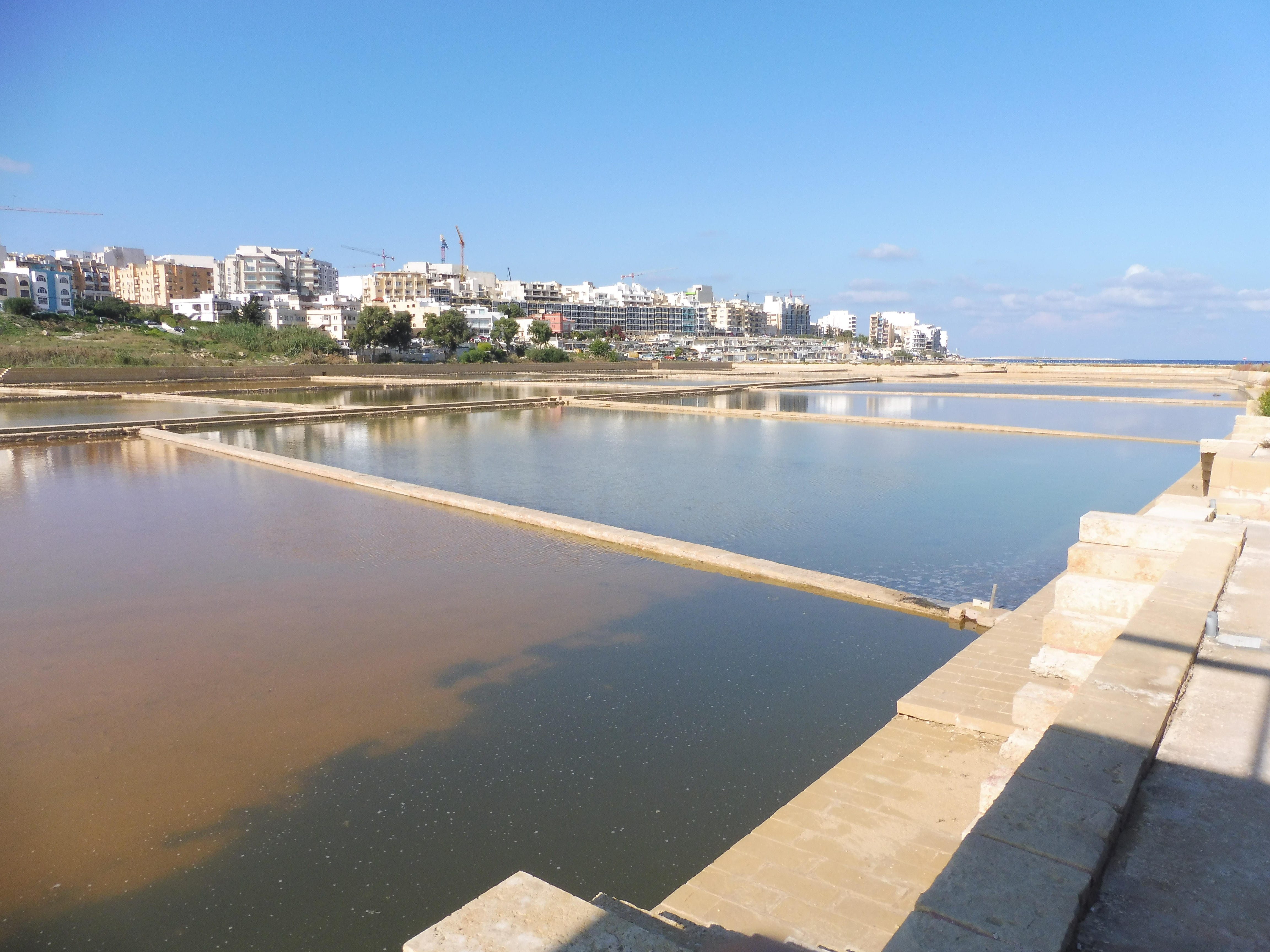 Salt Pans in the Salina Bay on Malta (2019)